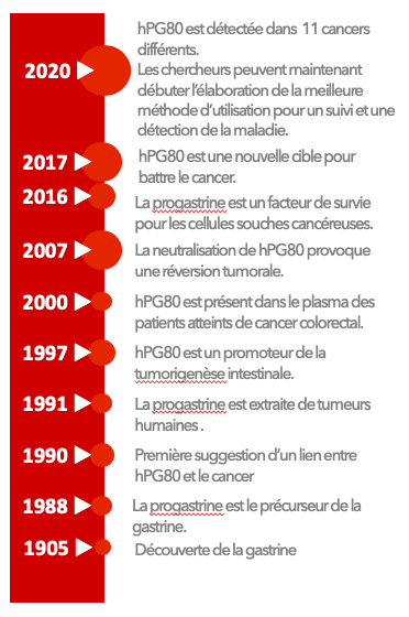 Timeline outlining the key points in the discovery of the link between hPG80 and cancer